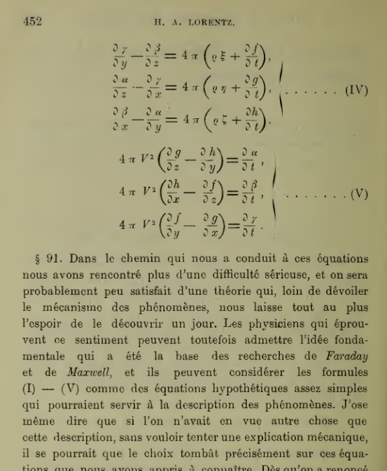 H.A. Lorentz: Maxwell equations for rot (curl) B and rot (curl) E. From La théorie electromagnétique de Maxwell et son application aux corps mouvants, Archives néerlandaises des Sciences exactes et naturelles, 1892, p 451, equations IV and V. V is the velocity of light.